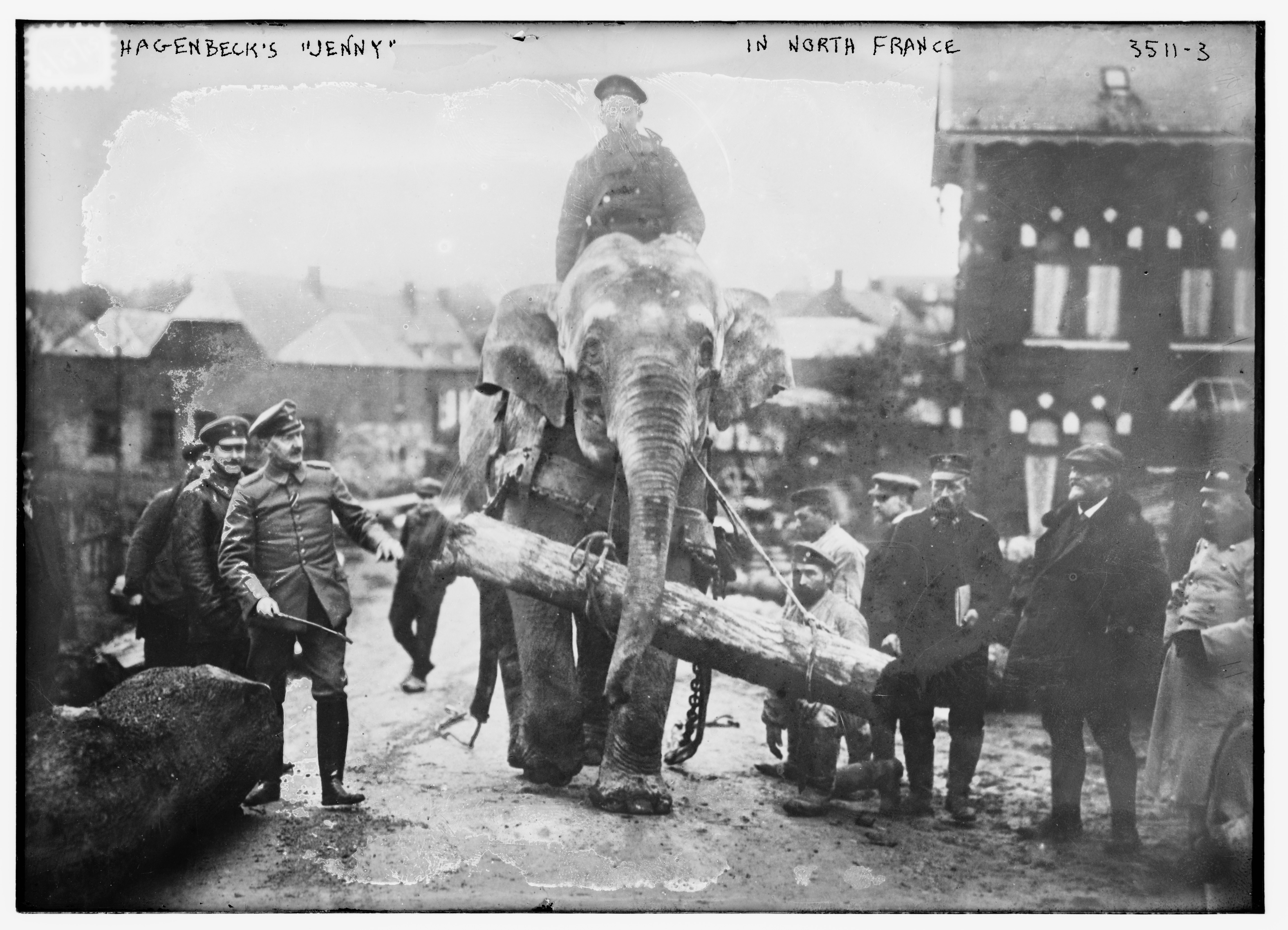 Title: Hagenbeck's "Jenny" in North France Abstract/medium: 1 negative : glass ; 5 x 7 in. or smaller.